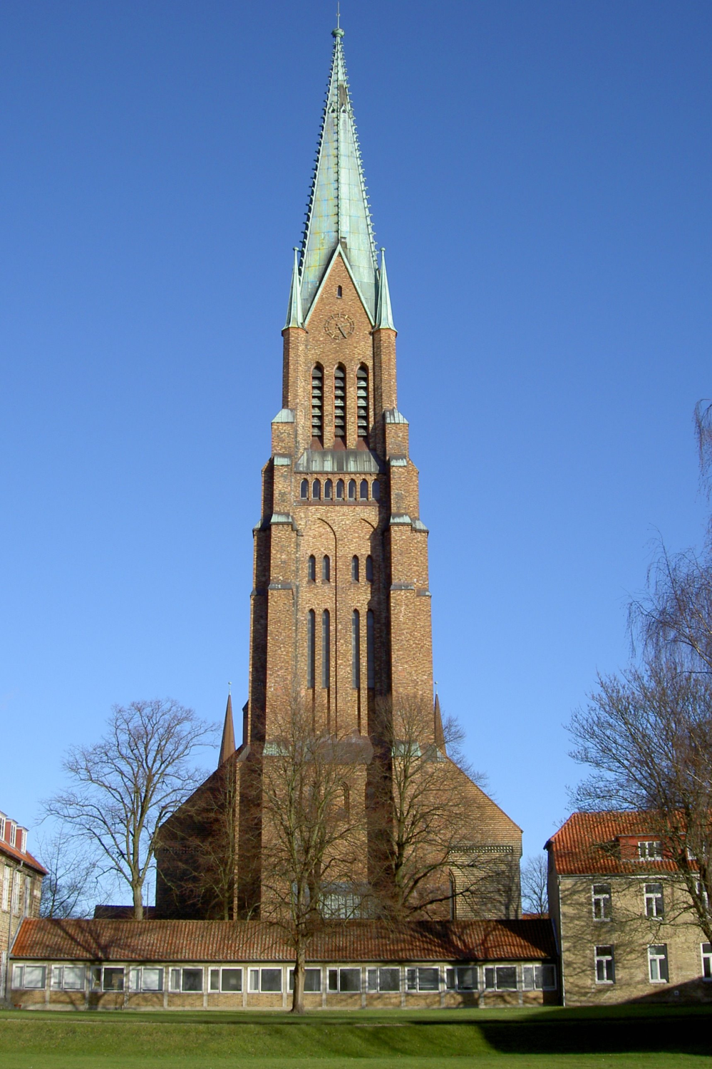 St Peter's Cathedral in Schleswig.